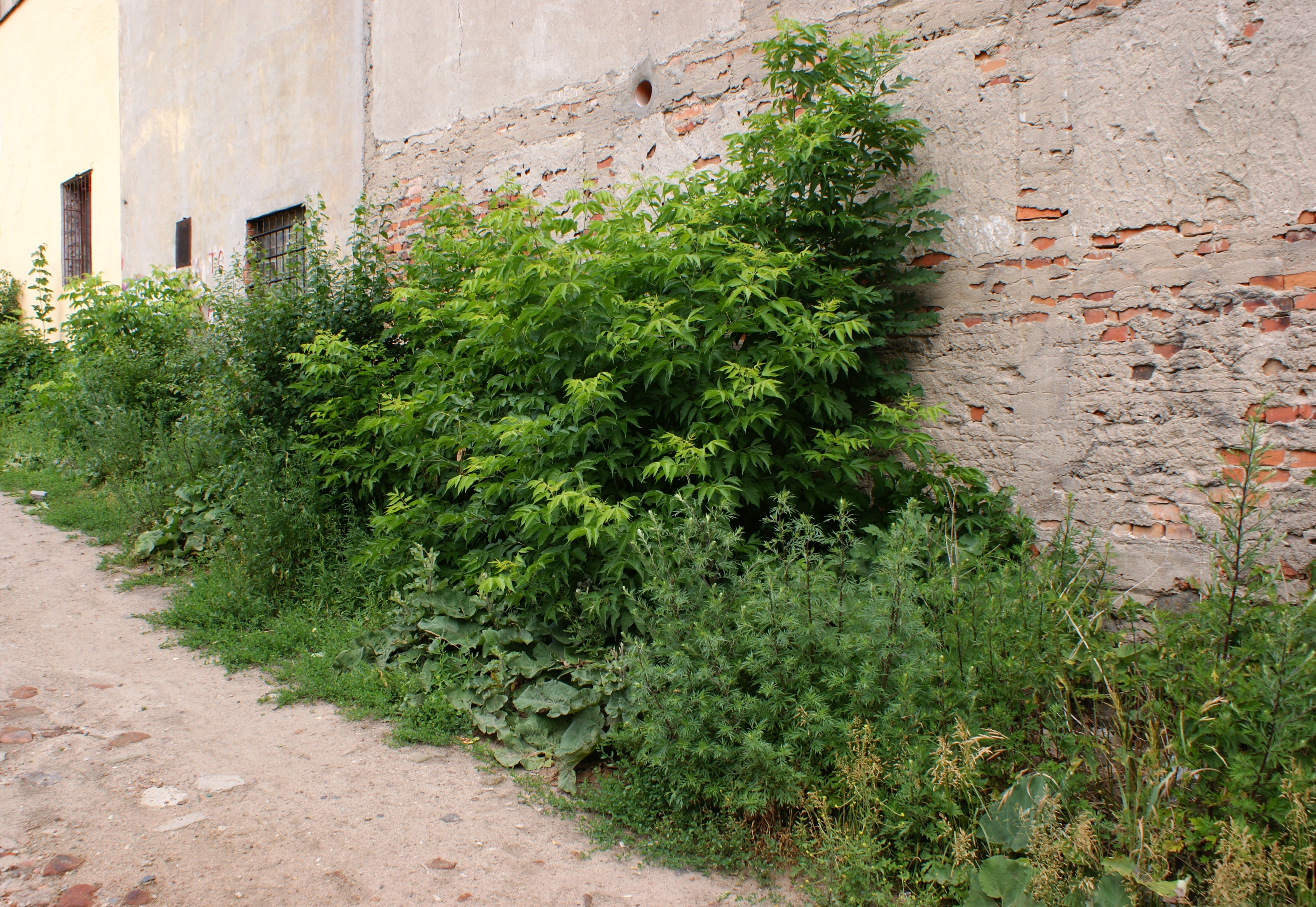 Ruderal plant community (Sambucus nigra, Artemisia vulgaris, Arctium spp.) in Lobez, NW Poland